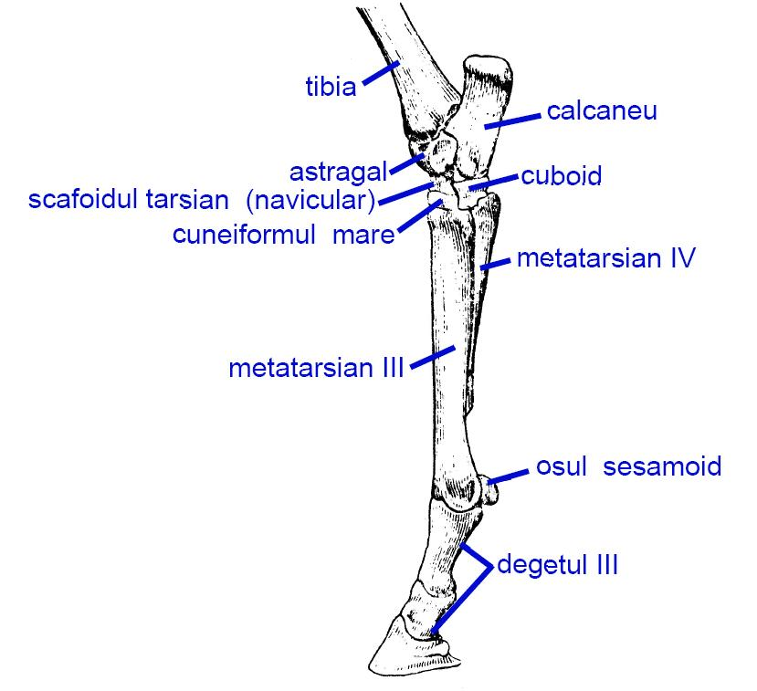 Hindlimb of horse